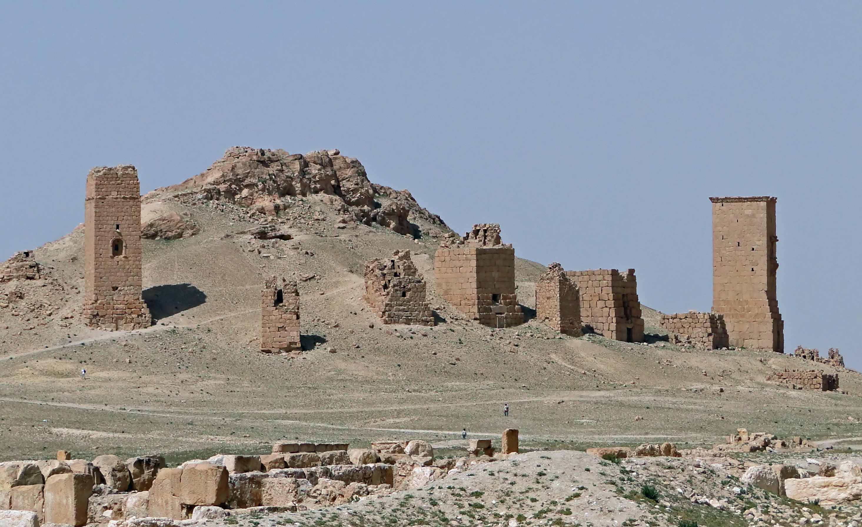 Tower tombs in the Valley of the Tombs at Palmyra, Syria